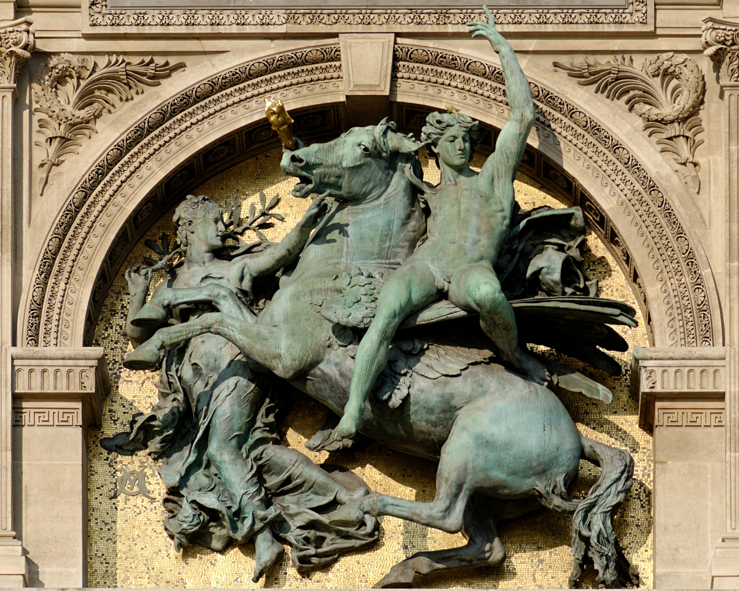 The Genius of Arts by Antonin Mercié (French, 1845–1916). Hammered copper, 1877. From the guichet on the Louvre’s façade, facing the river Seine, Paris.